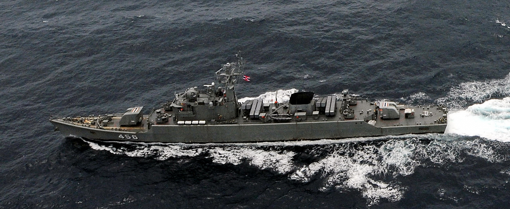 Royal Thai Navy frigate HTMS Bangpakong (456)